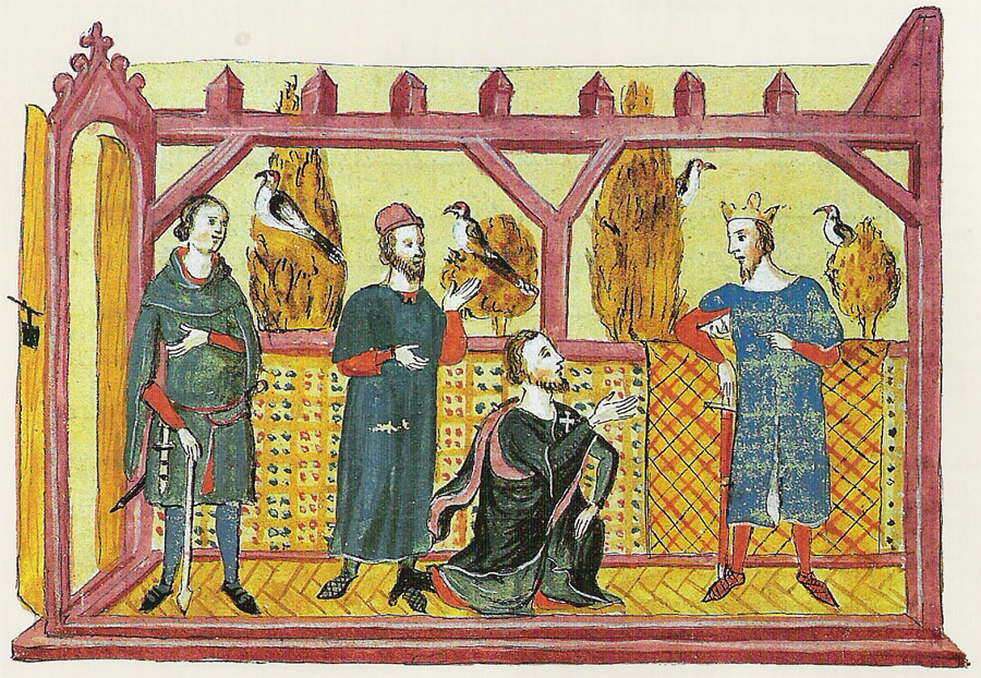 King Conqueror's Chronical